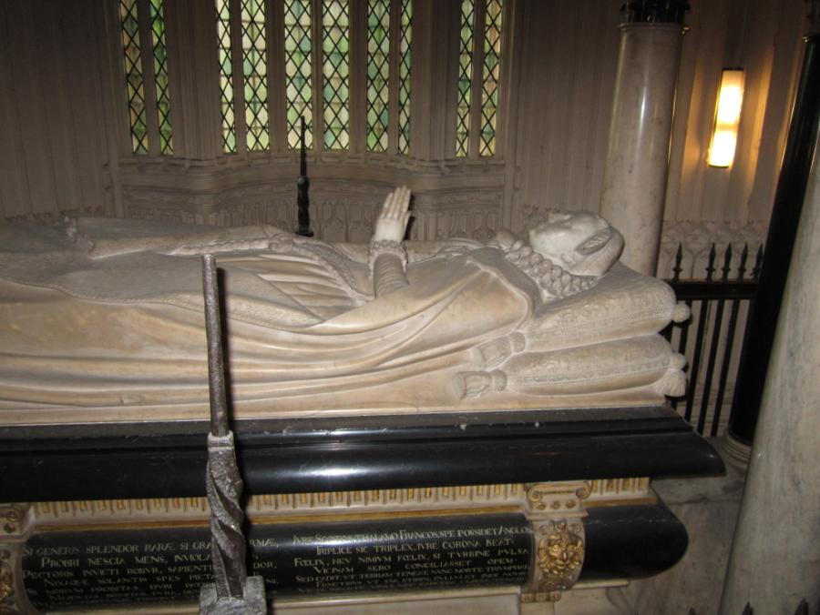 Grave of Queen Mary of Scotland, as released by image creator Ristesson HistoryPlace: Westminster Abbey, London, England, United Kingdom